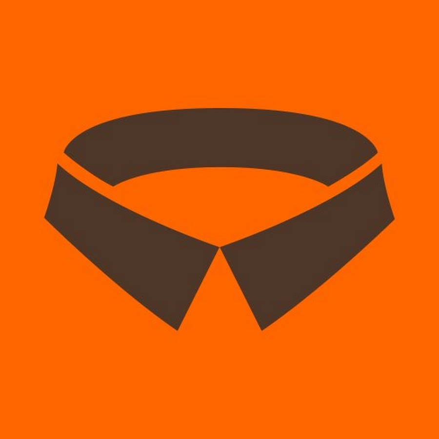 my own self